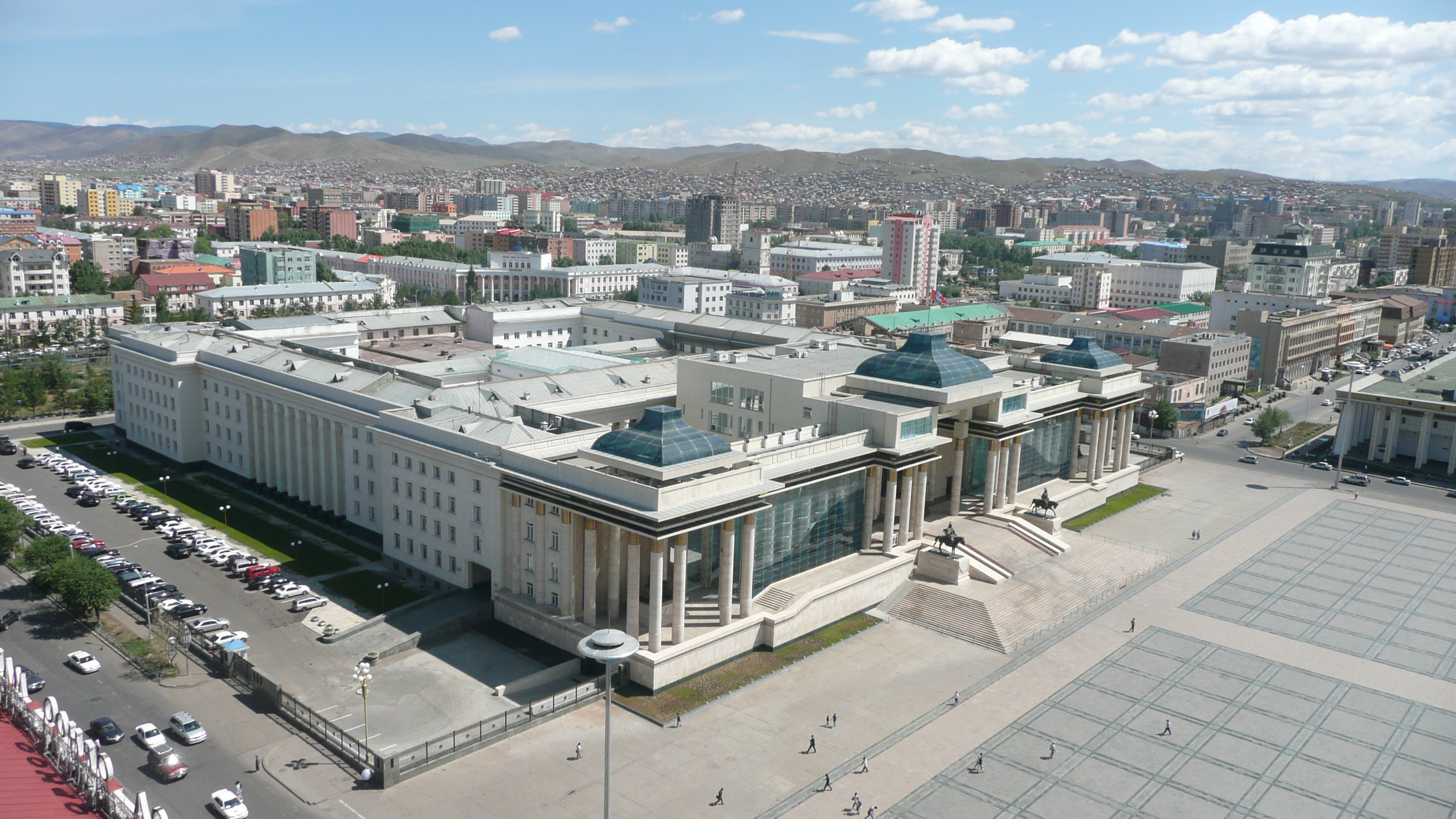 Panorama of Ulan Bator, government palace